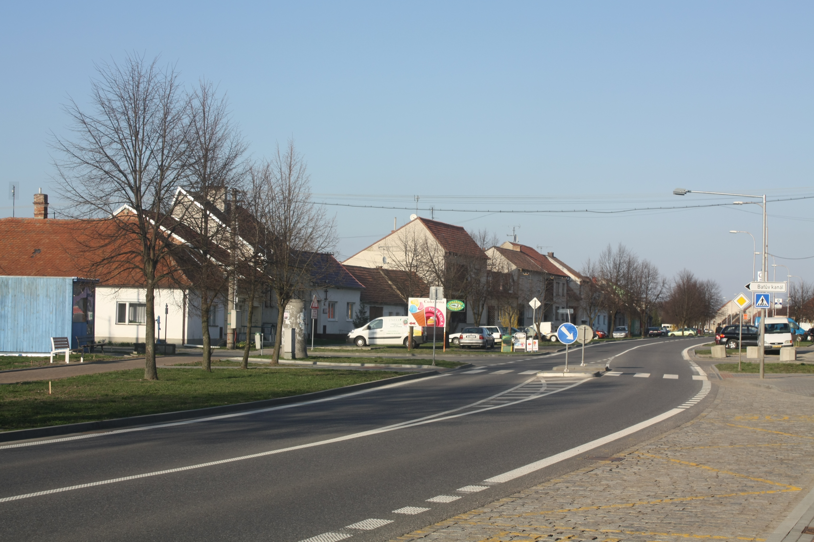 Petrov (Hodonín district, Czech Republic) - main street